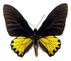 troides helena jantan